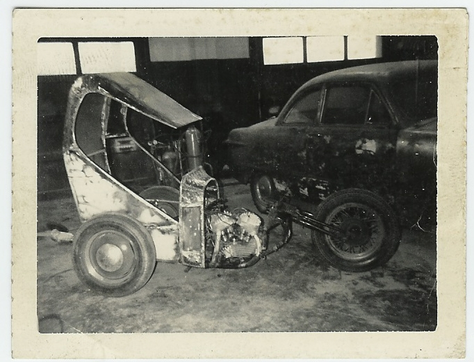 The oldest known chopper motorcycle in USA, built by Wild Child's Custom Shop of Kansas City, Missouri.